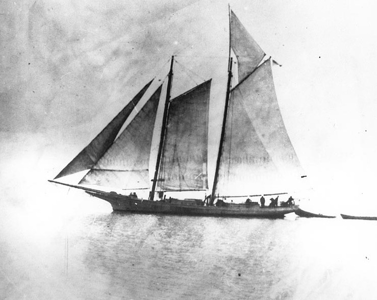 Anna B. Smith, a 70' 6" schooner, was built in 1892 at Little Choptank River, Maryland. A working craft of typical Chesapeake Bay type, she was owned by the Conservation Commission of Maryland when the Navy took her over for World War I service in August 1917. During the next year, Anna B. Smith was assigned to the Fifth Naval District and served on Maryland and Virginia waters. She was decommissioned and returned to her owner in late November 1918.